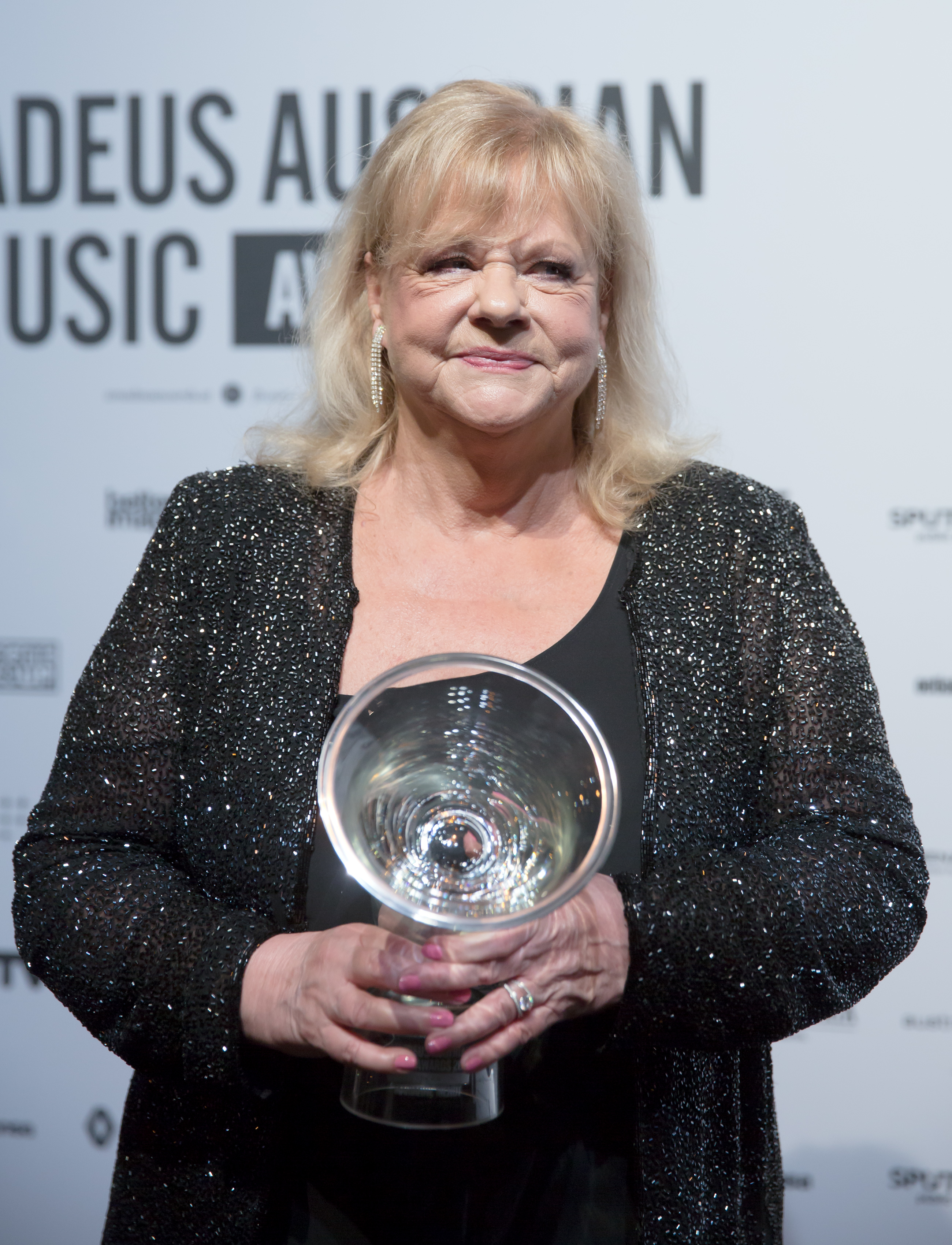 Marianne Mendt at the Amadeus Austrian Music Award 2015 at Volkstheater in Vienna